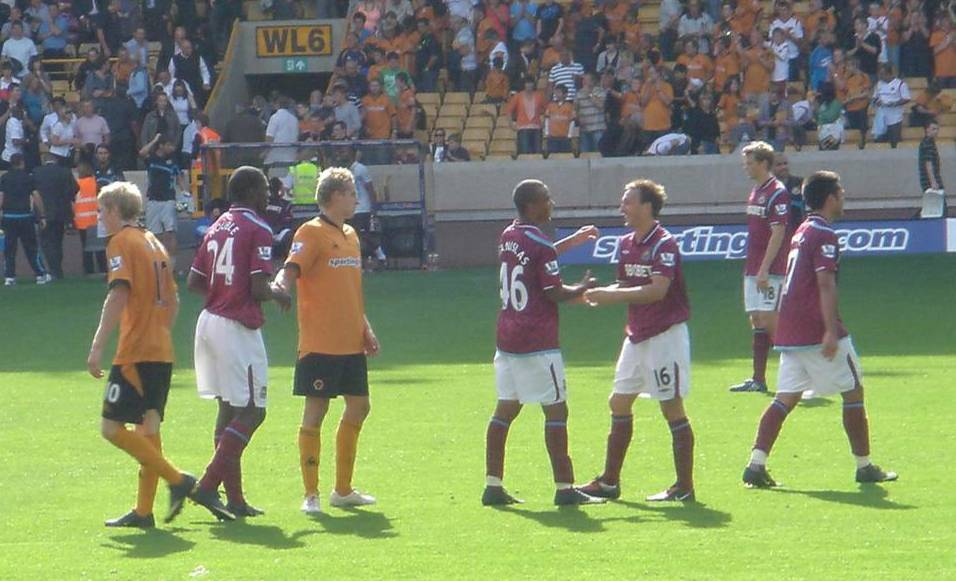 West Ham players including Frank Nouble and Luis Jimenez on their debuts, with Wolves players, at end of match.